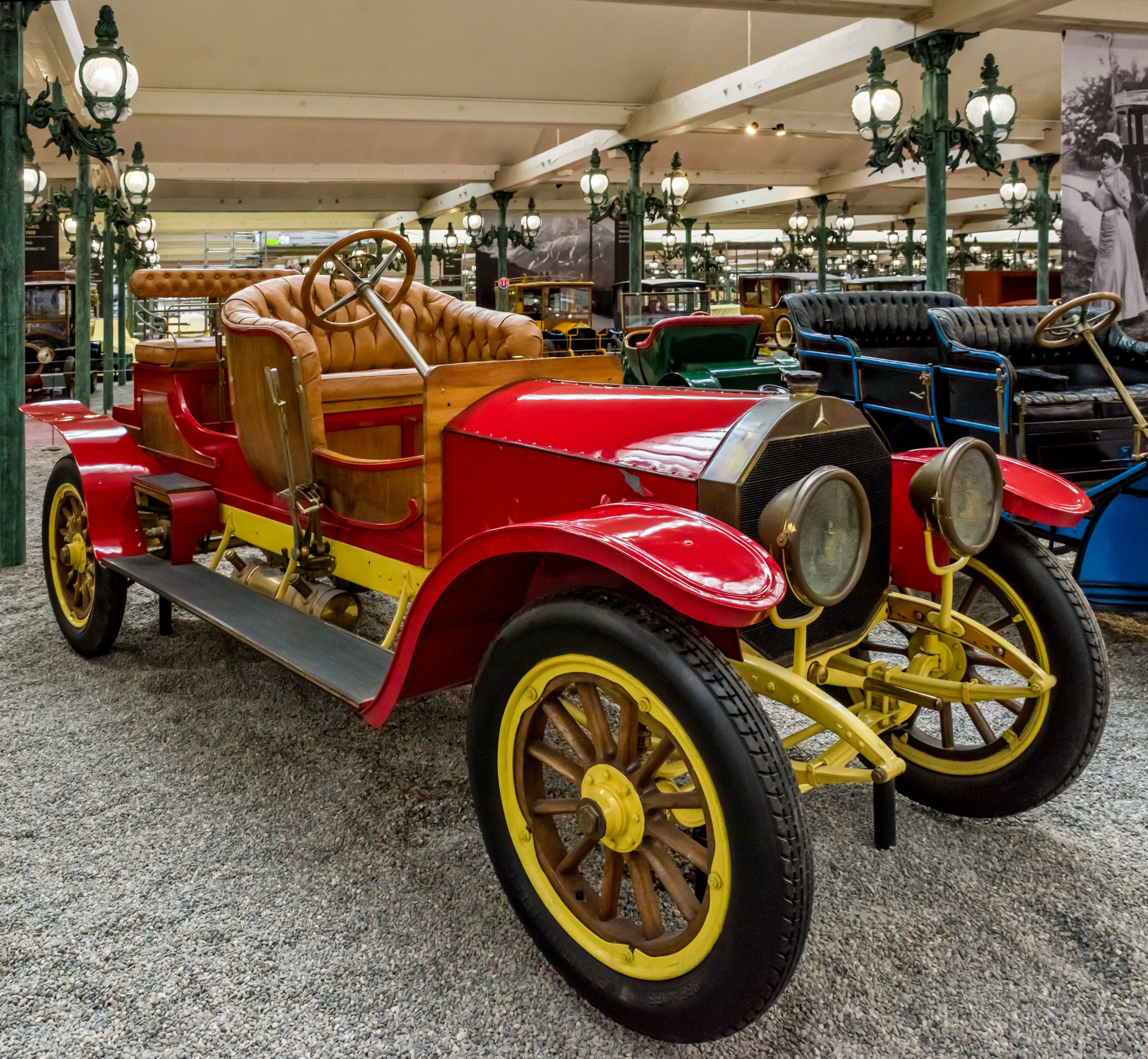 pictures from the Cité de l’Automobile – Musée National – Collection Schlump in Mulhouse, France ptictures from the 10. may 2018